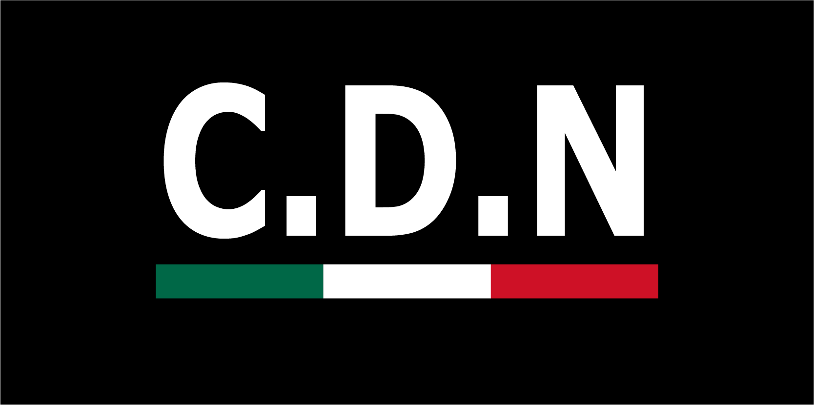 Logotype commonly used by the Cartel of the Northeast.